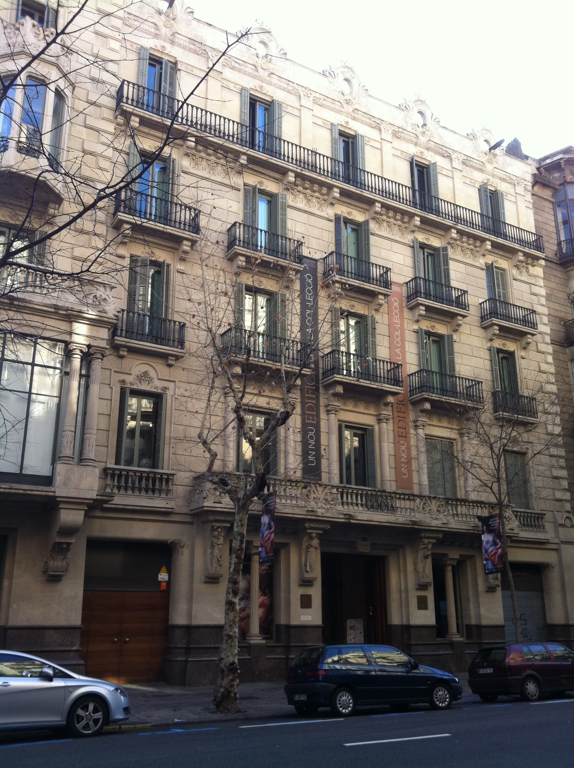 Francisco Godia Fundation. Enric Sagnier Building in Barcelona